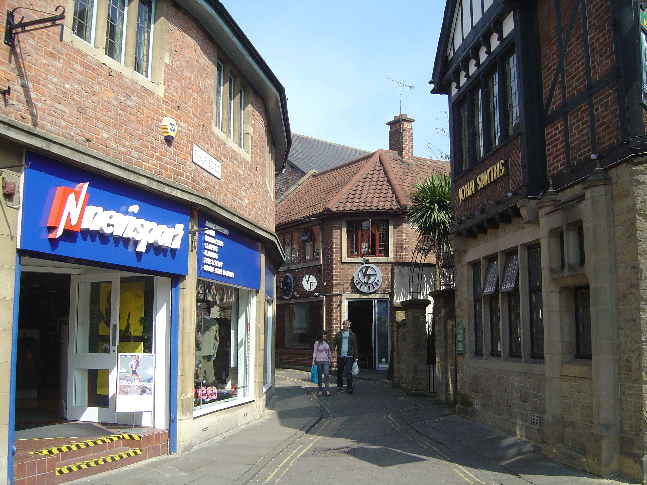 Finkle Street: one of the Snickelways of York